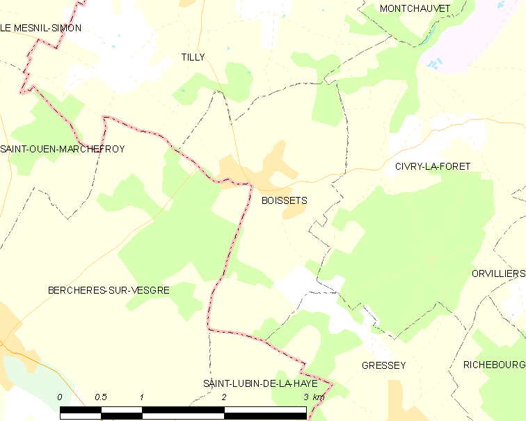 Map of French municipality Boissets